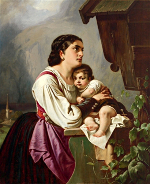 Prayer